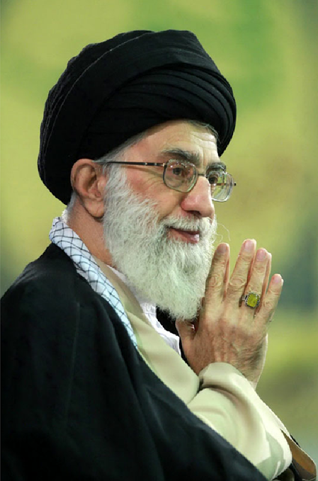 Flipped image of File:Seyyed Ali Khamenei.jpg